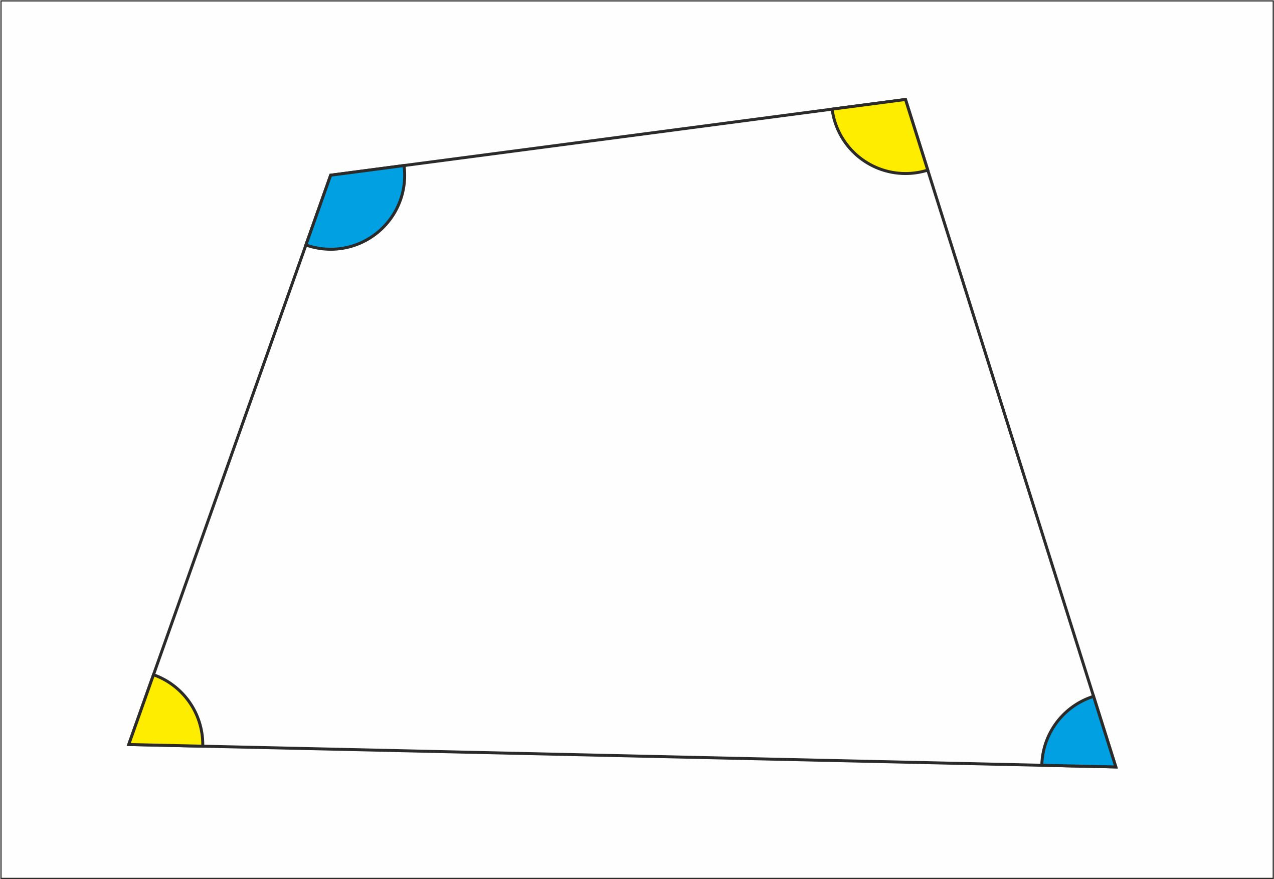 opposite and adjacent angles in quadrilateral